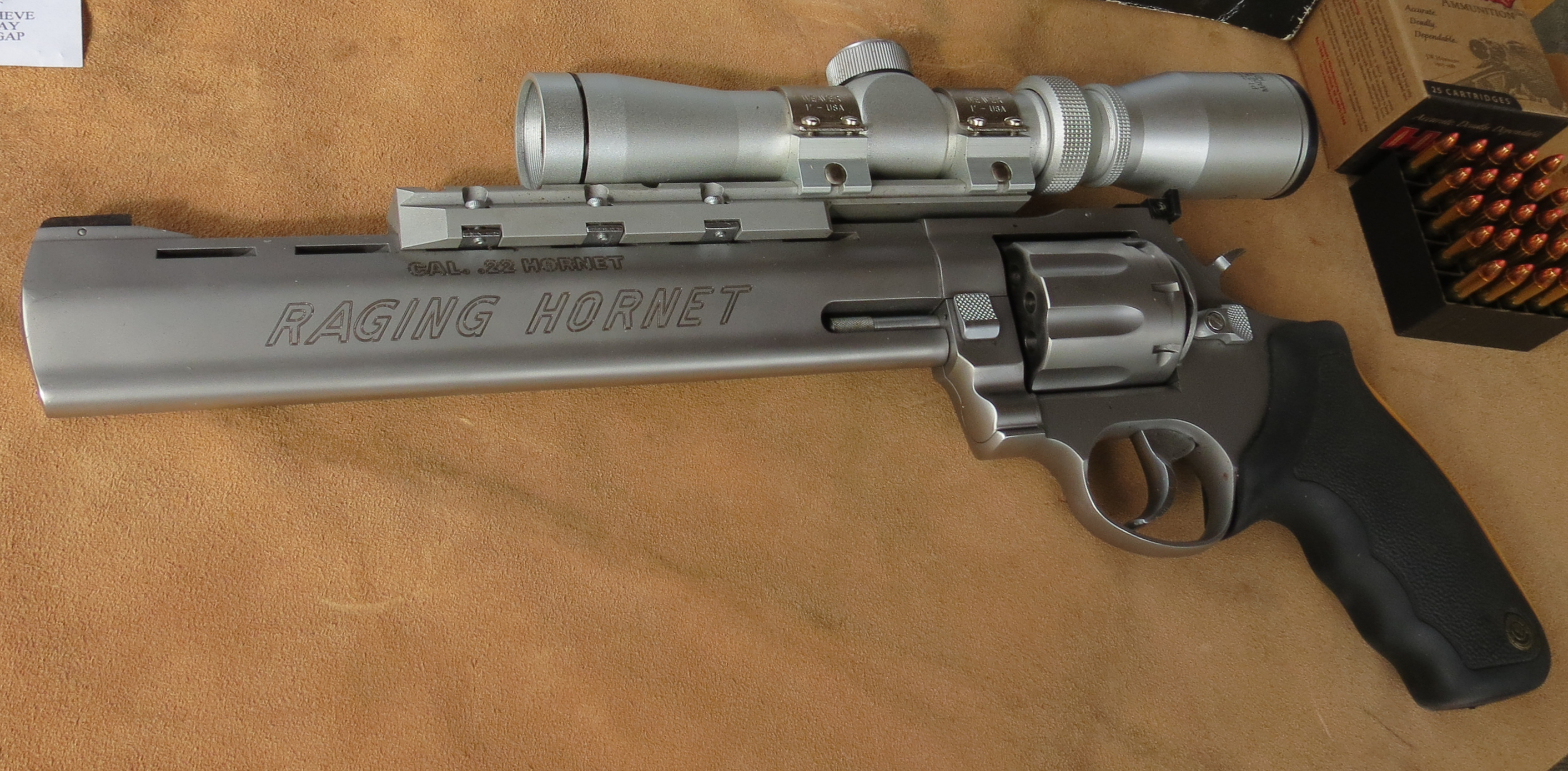 A revolver chambered in .22 Hornet, which is normally a caliber used in rifles.